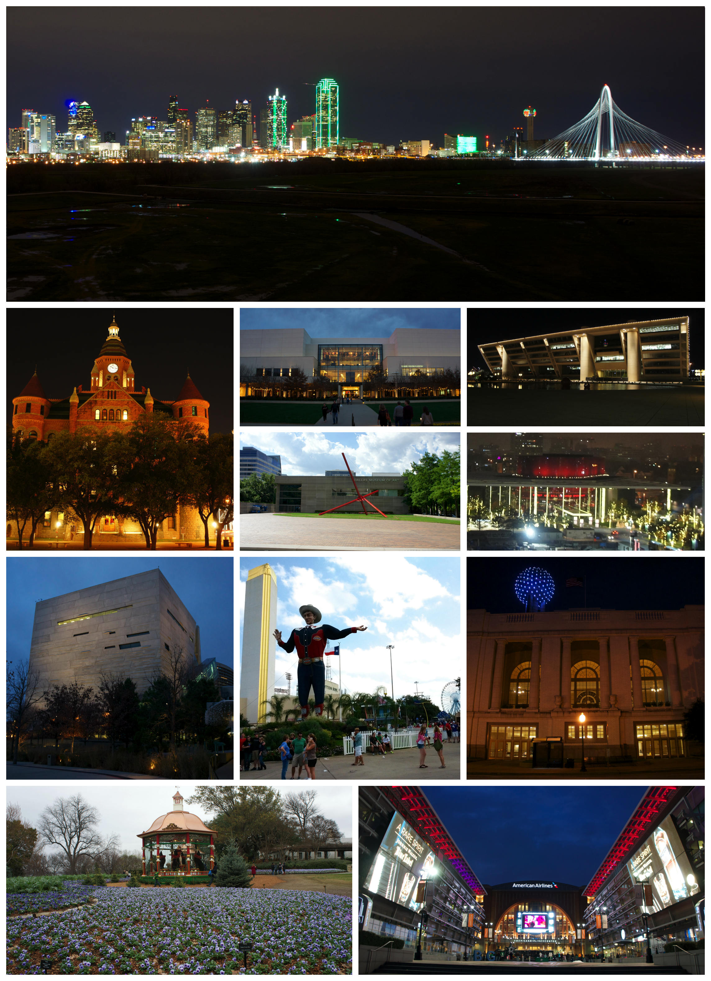 A collage of images of Dallas, Texas. Top to bottom, left to right: Downtown Dallas skyline, Old Red Museum, NorthPark Center, Dallas City Hall, Dallas Museum of Art, Winspear Opera House, Perot Museum of Nature and Science, State Fair of Texas at Fair Park, Union Station, Dallas Arboretum and Botanical Gardens, and the American Airlines Center